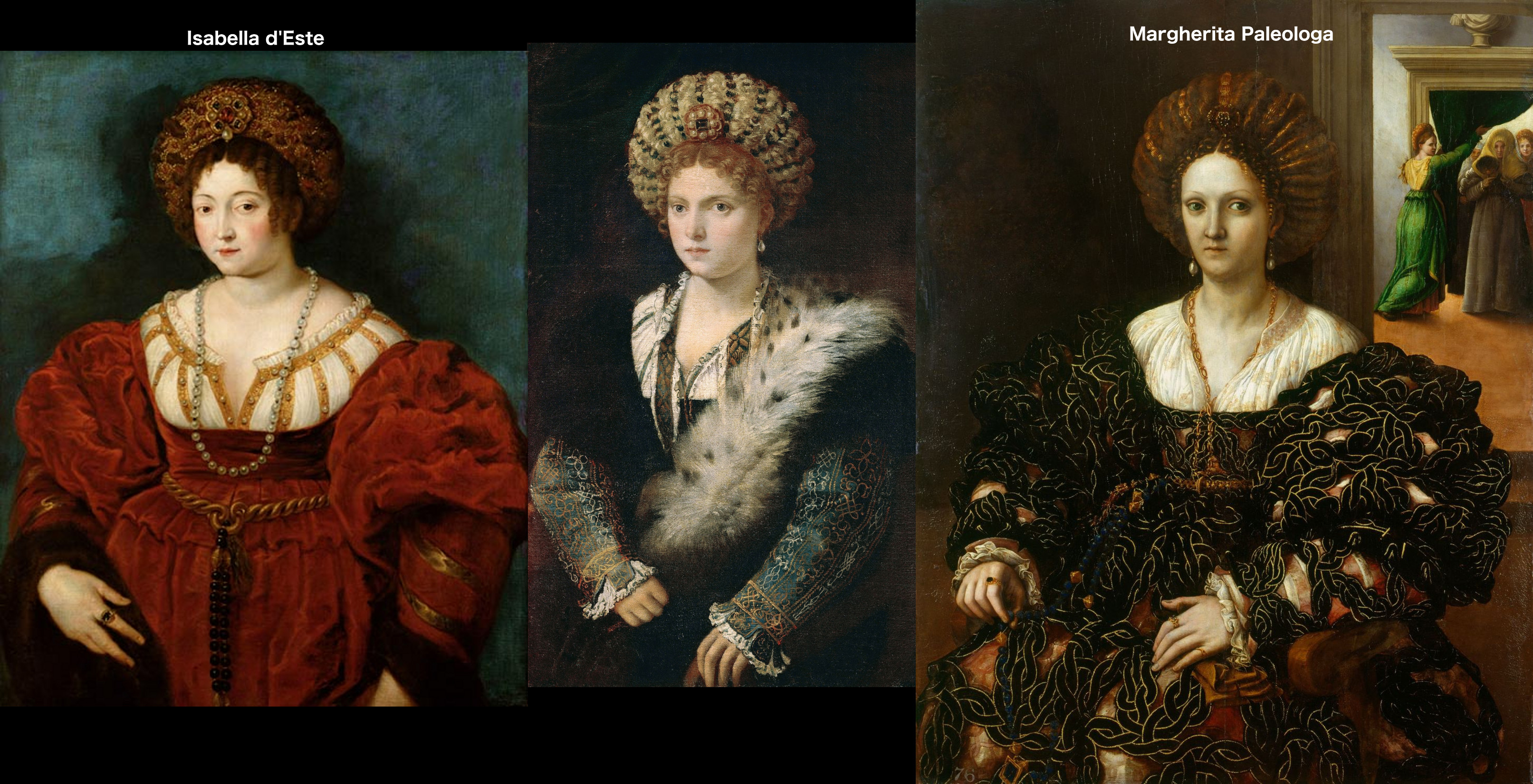 'Isabella in Red' (Titian, known by copy Rubens) [Kunsthistorisches Museum, Vienna] vs. 'Isabella in Black' (Titian) [Kunsthistorisches Mueum, Vienna] vs. Margherita Paleologa (Romano) [Royal Collection, London]